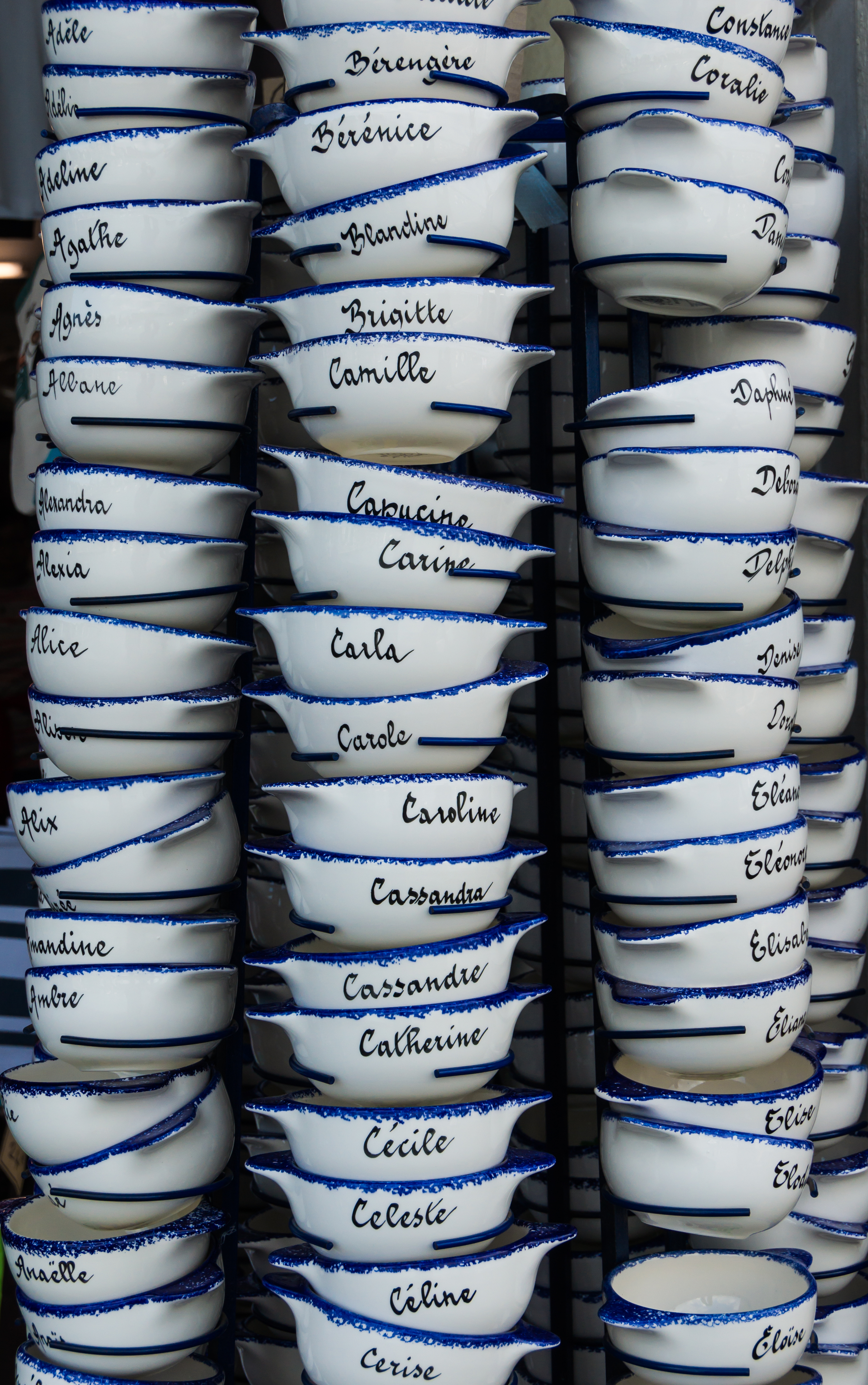 Typical breton painted bowls, with women's names. Île aux Moines, Morbihan, France